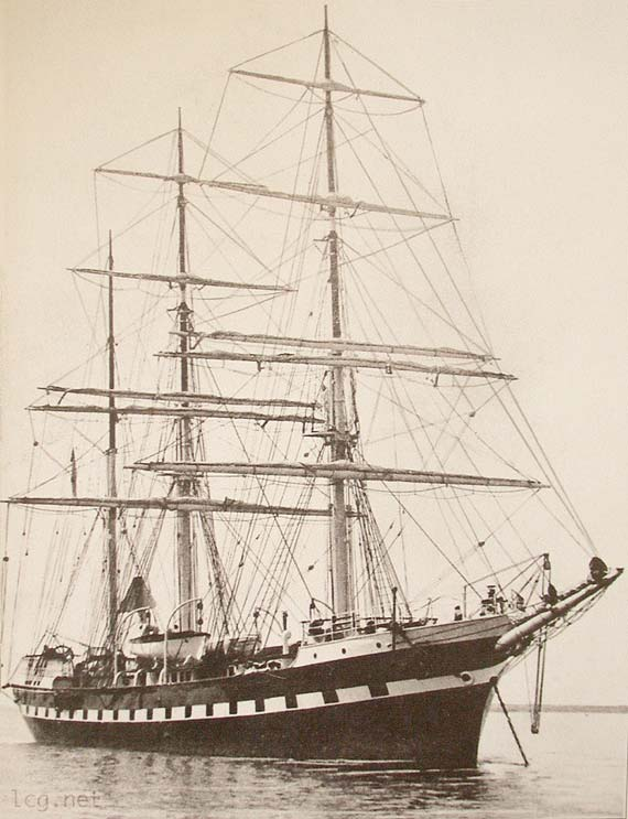 The Belem ship whilst owned by the Duke of Westminster so before 1921